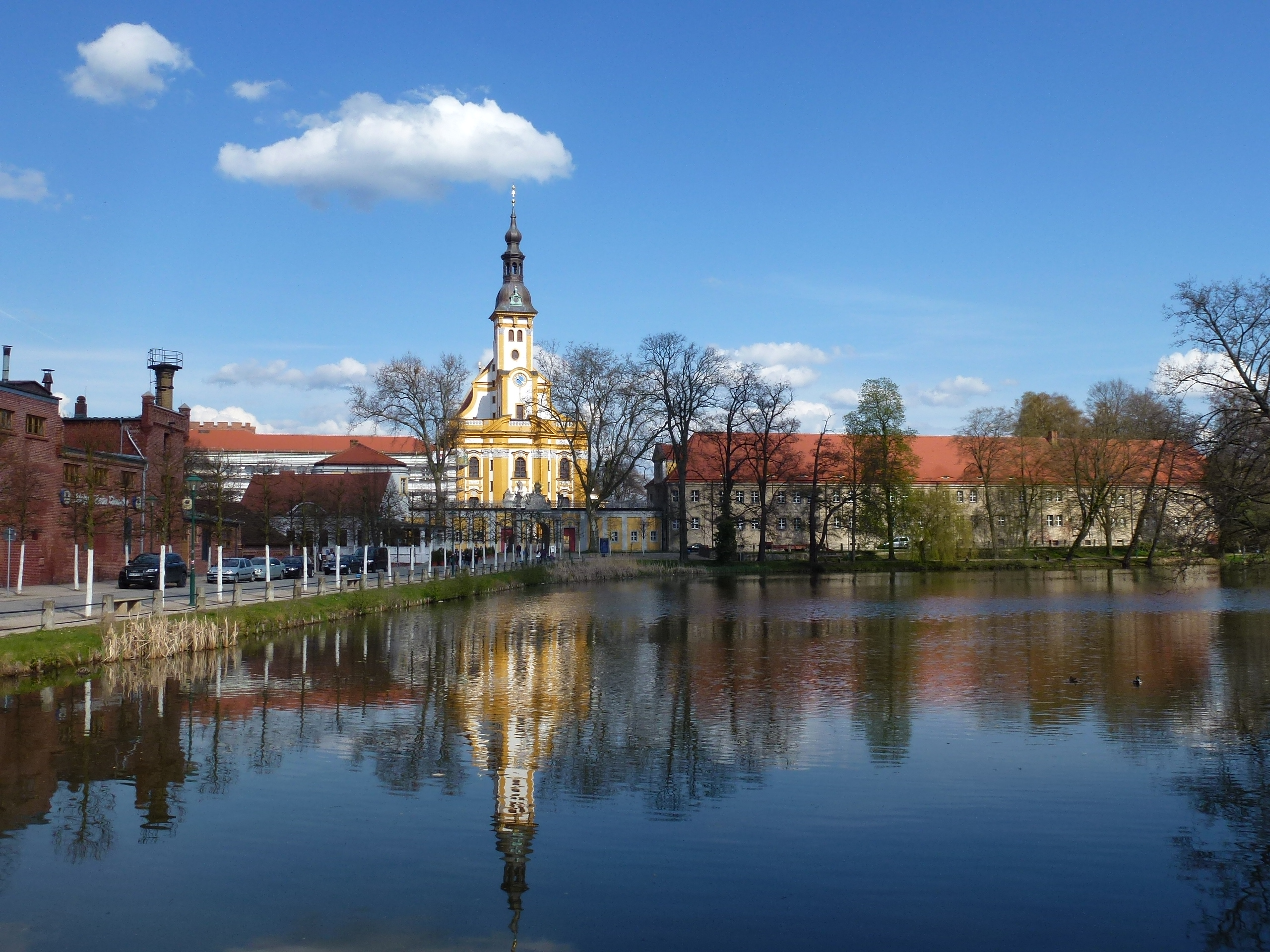 Kloster Neuzelle Klosterteich